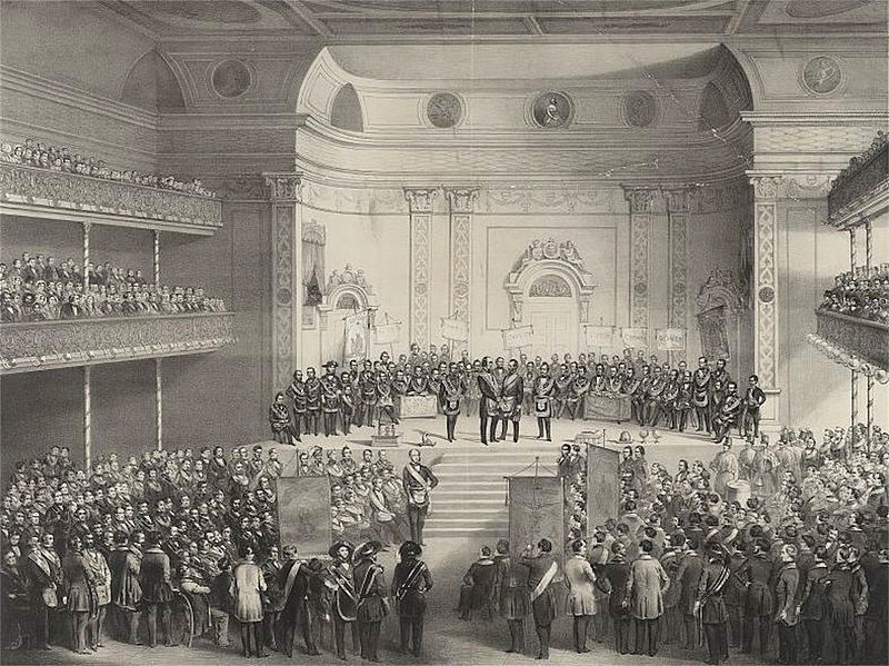 Border with caption cropped off. The caption reads: "The Great Masonic Union Celebration of the Brethren hitherto under the Jurisdiction of St. John's Grand Lodge with the Most Worshipful Grand Lodge of the M. A. & hon. Fraternity of Free and Accepted Masons of the State of New York, At Tripler Hall, City of New-York Friday December 27th A. D. 1850_A. L. 5850." The credits read: "Drawn on Stone by C. G. Grehen. Print by Nagel & Weingärtner." "Daguerreotyped and Published by J. M. & F. J. CLARK, 551 Broadway New-York." Also marked: "Entered according to act of Congress in the year 1851 by J. M. & F. J. Clark in the Clerk's office of the District Court of the Southern District of New-York." Handwritten in lower left: "379 Deposited in the Clerk's Office Southern District of New York July 30, 1851." The event is described in contemporary notices: "Masonic Notice" New-York Daily Tribune (December 23, 1850), col. 1